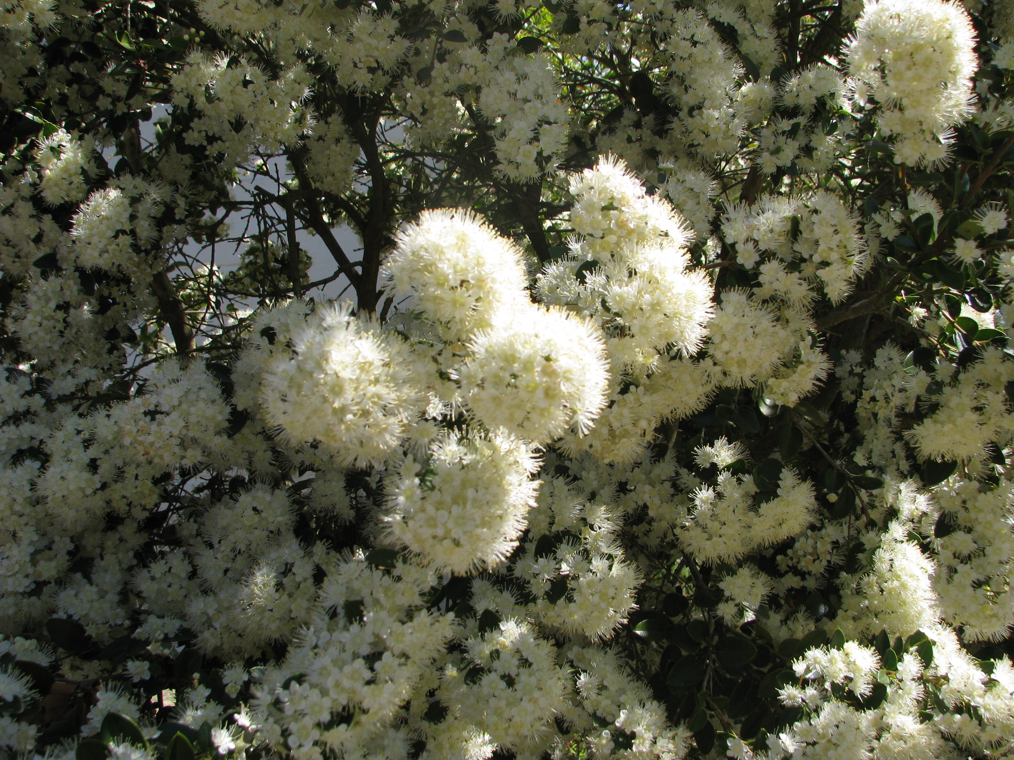 Powerfully fragrant...